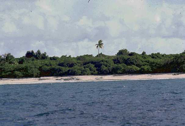 Beach at Bikini Atoll